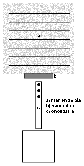 Graphic for Oholtzar pasaboloa